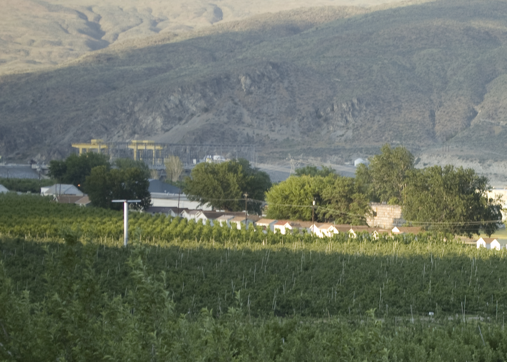 The yellow cranes mark Wells Dam. The photograph was taken from Azwell, WA.